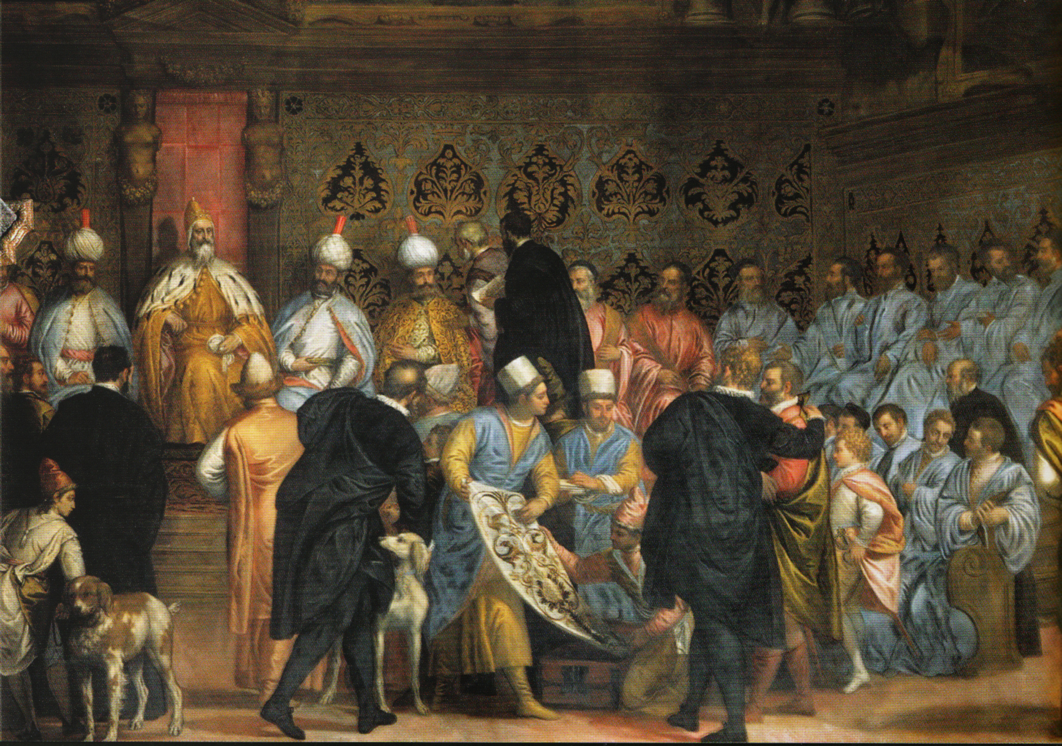 Shah Abbas' first embassy to Europe, here in Venice